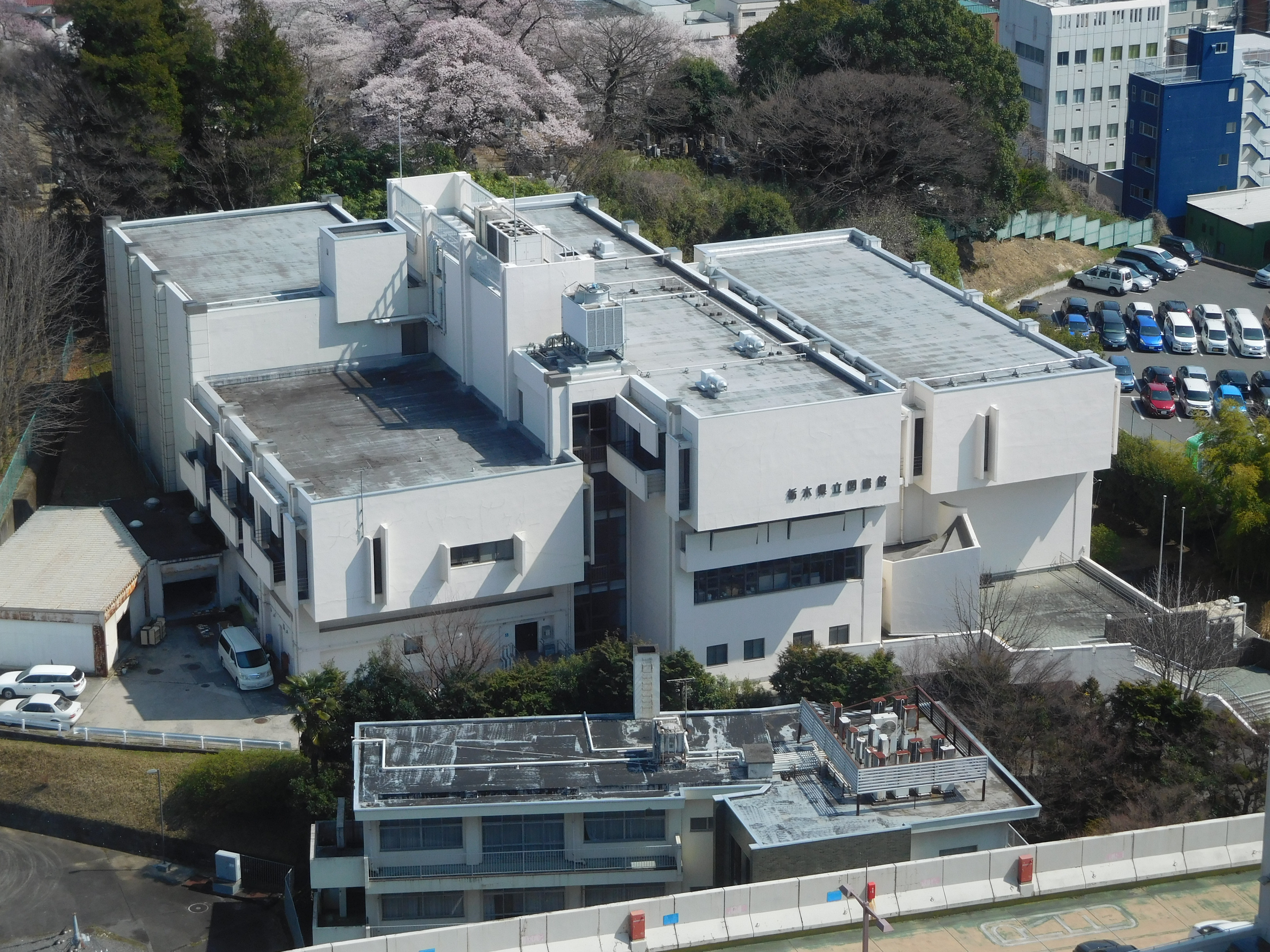 This is the Tochigi prefectural library in Utsunomiya, Tochigi, Japan. It was taken from the 15 floor of Tochigi prefectural government office building.